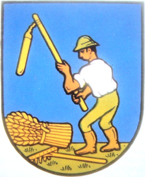 Svinov (Ostrava) historical CoA CZ